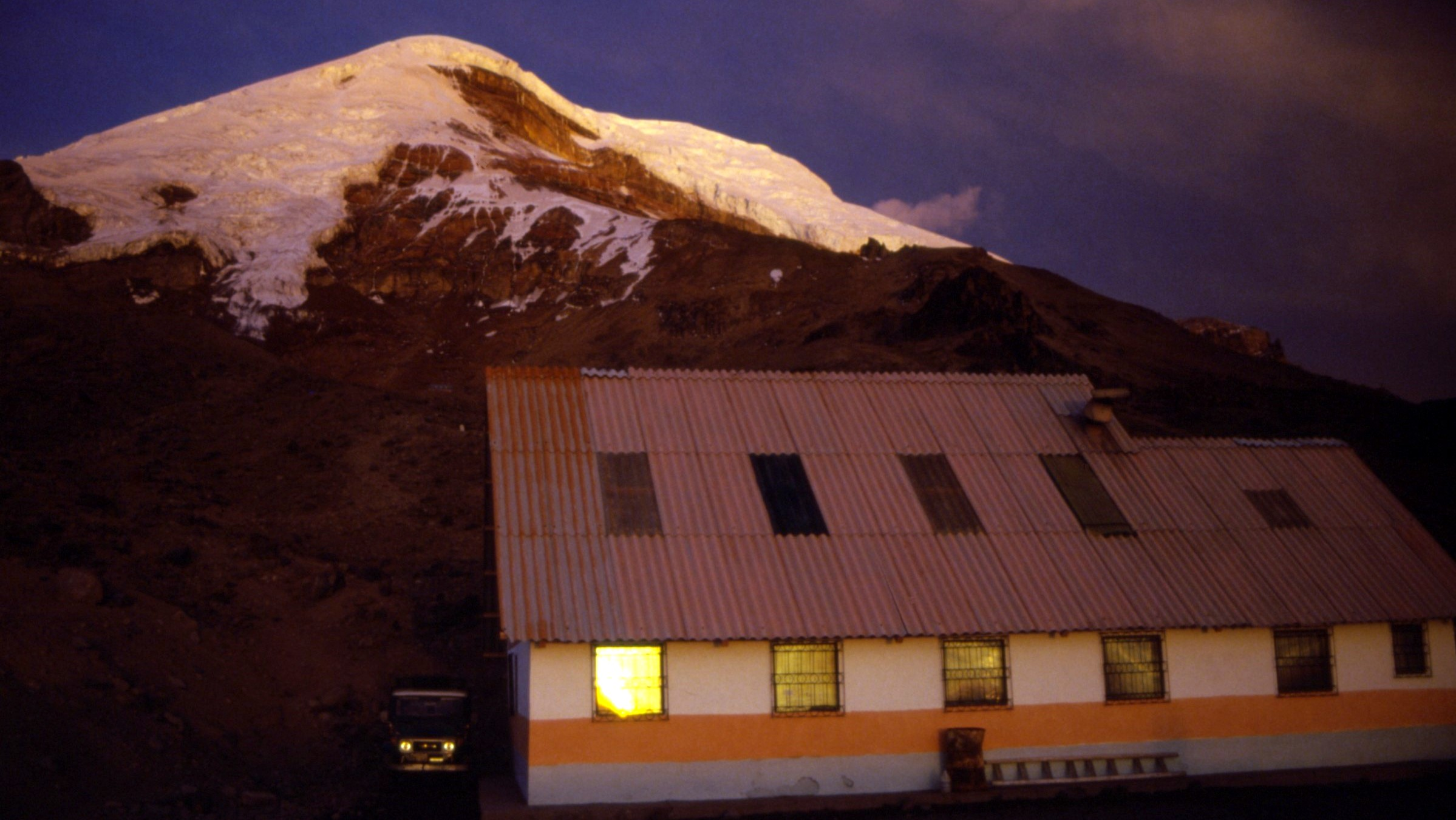 Carrel Hut (at 4850m) and Chimborazo